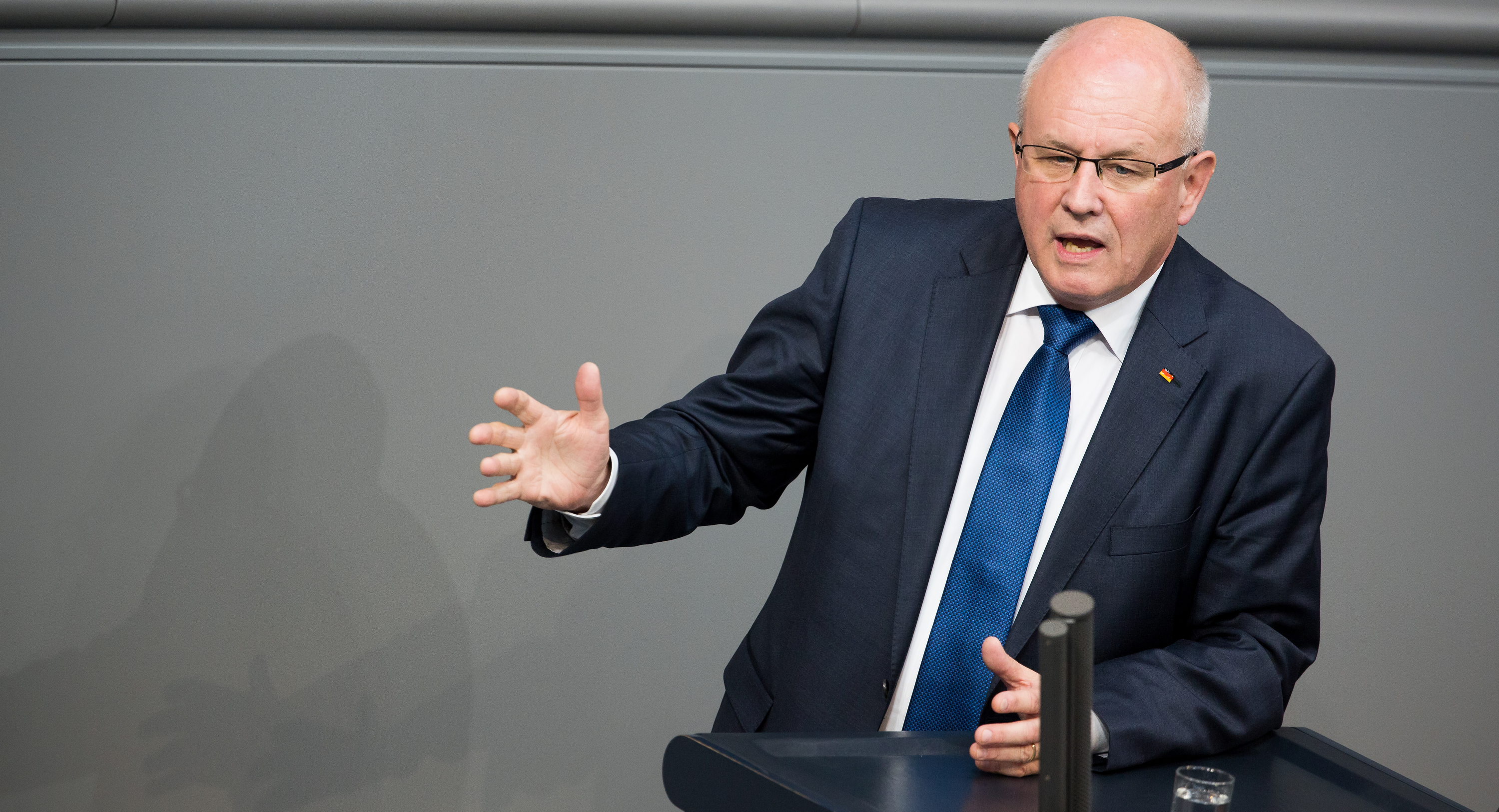 Picture taken during Wikipedia Bundestag project 2014. Volker Kauder.